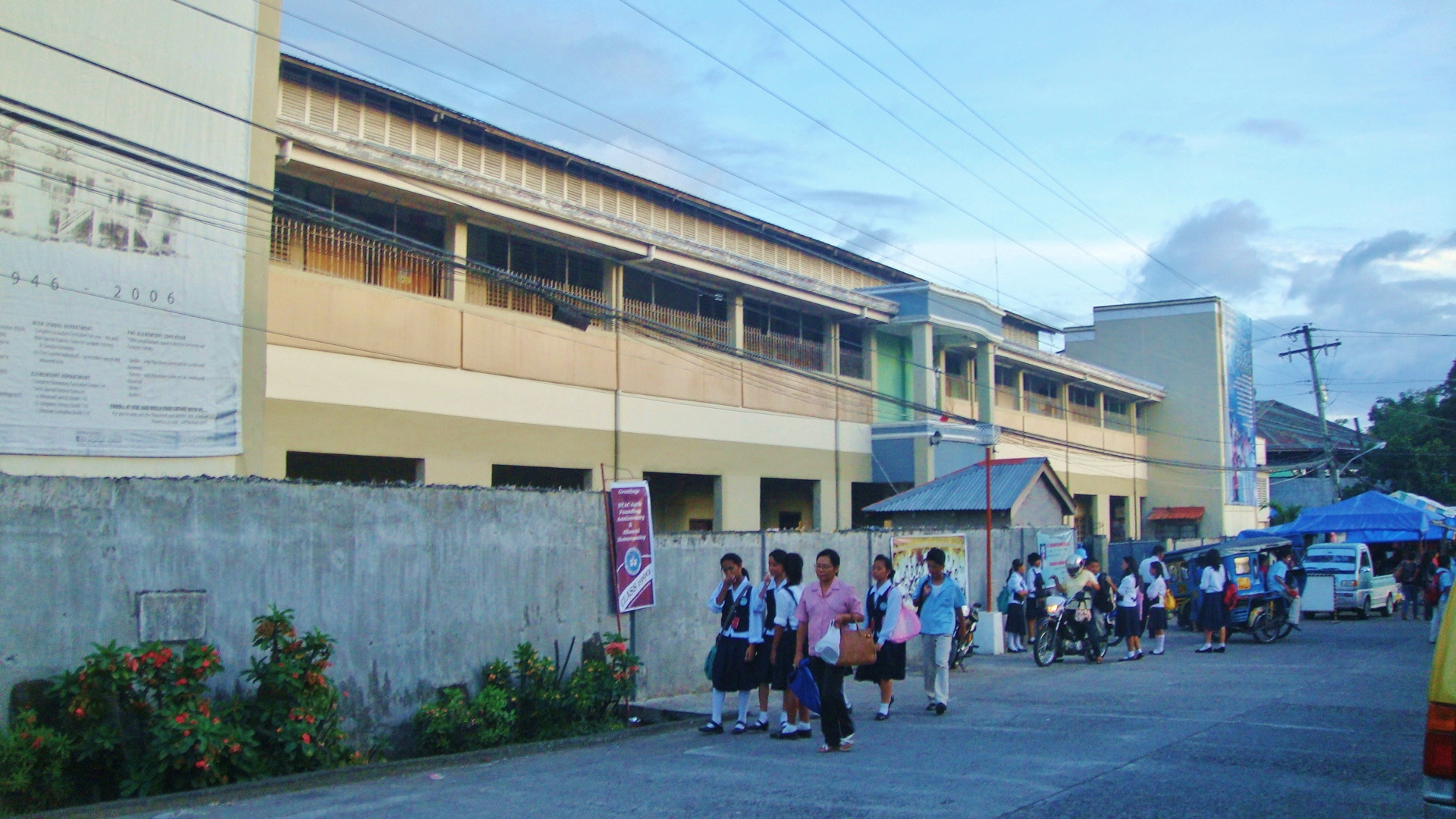 Front view of STAC